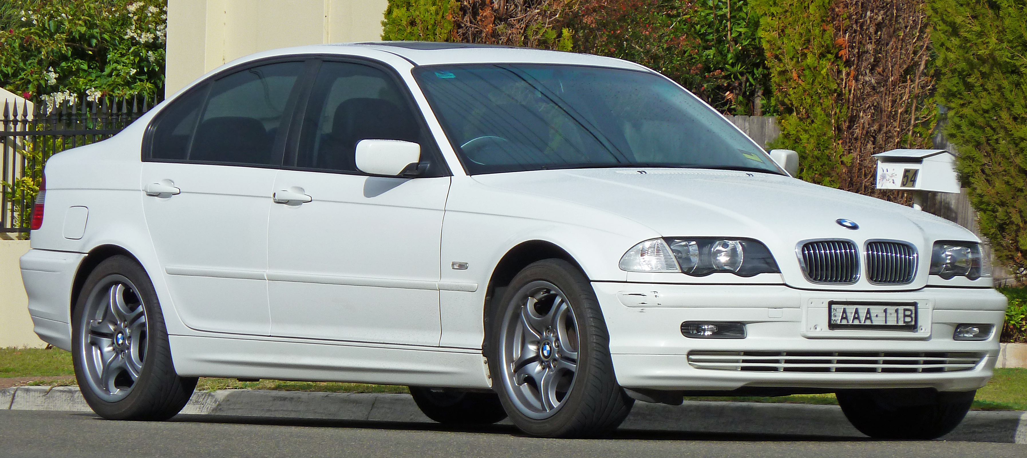 2001 BMW 318i (E46) sedan. Photographed in Kangaroo Point, New South Wales, Australia.